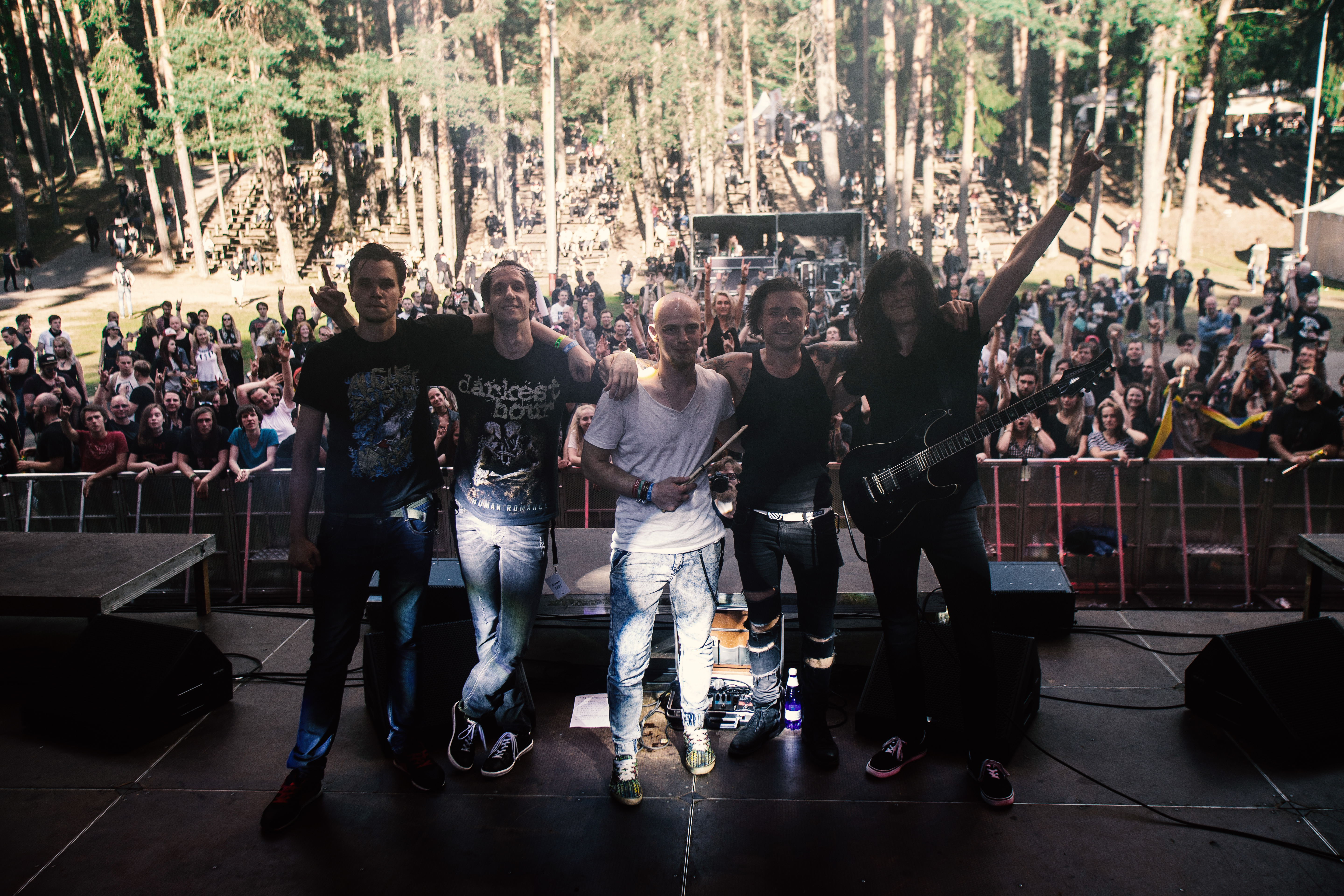 Band on stage at the DevilStone Festival in Lithuania.